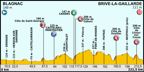 Profil of the 18th stage of the Tour de France 2012